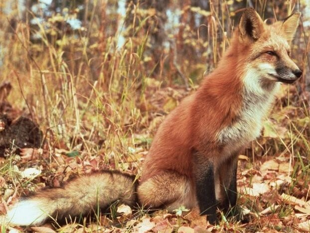 A northern plains fox (Vulpes vulpes regalis) in Minnesota